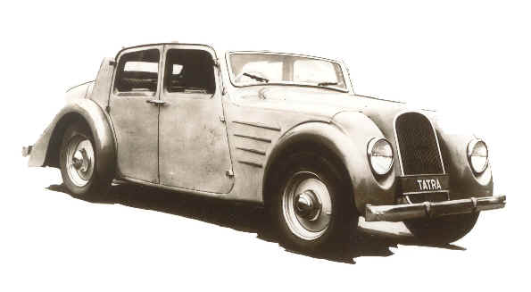 Tatra T75 Fitzmaurice from 1934. It was created by Captain Douglas Fitzmaurice who was the Tatra importer in UK in 1930's.